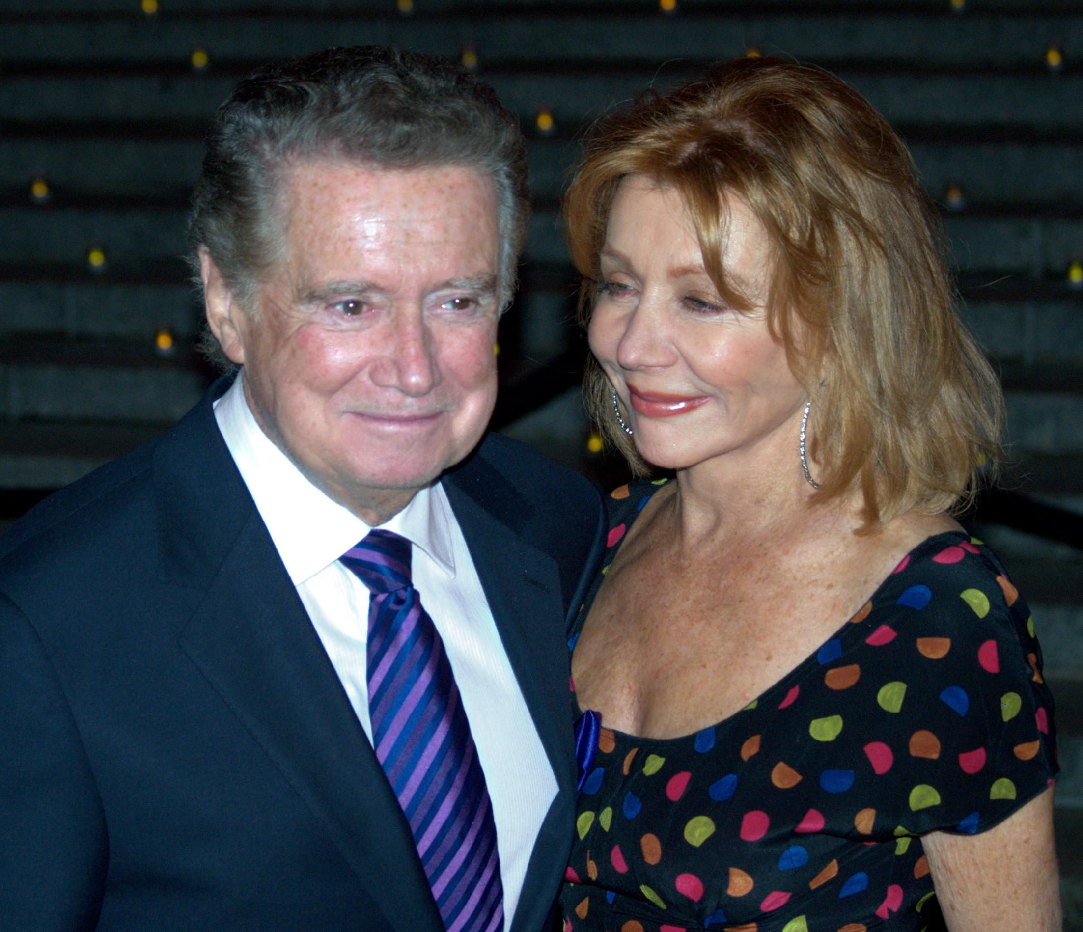 Regis Philbin and his wife Joy Philbin at the 2009 Tribeca Film Festival celebration hosted by Vanity Fair.